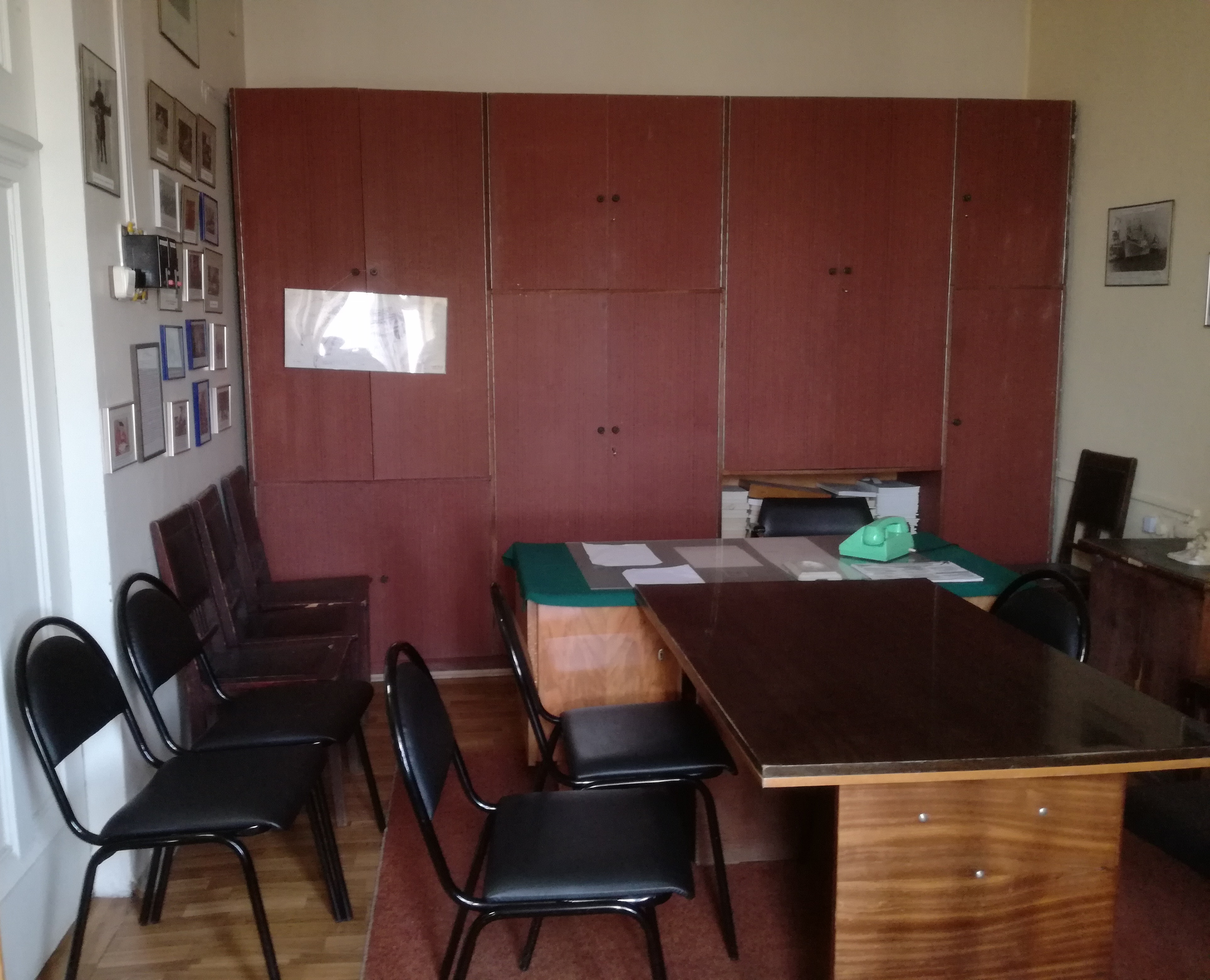 Artobolevsky's office